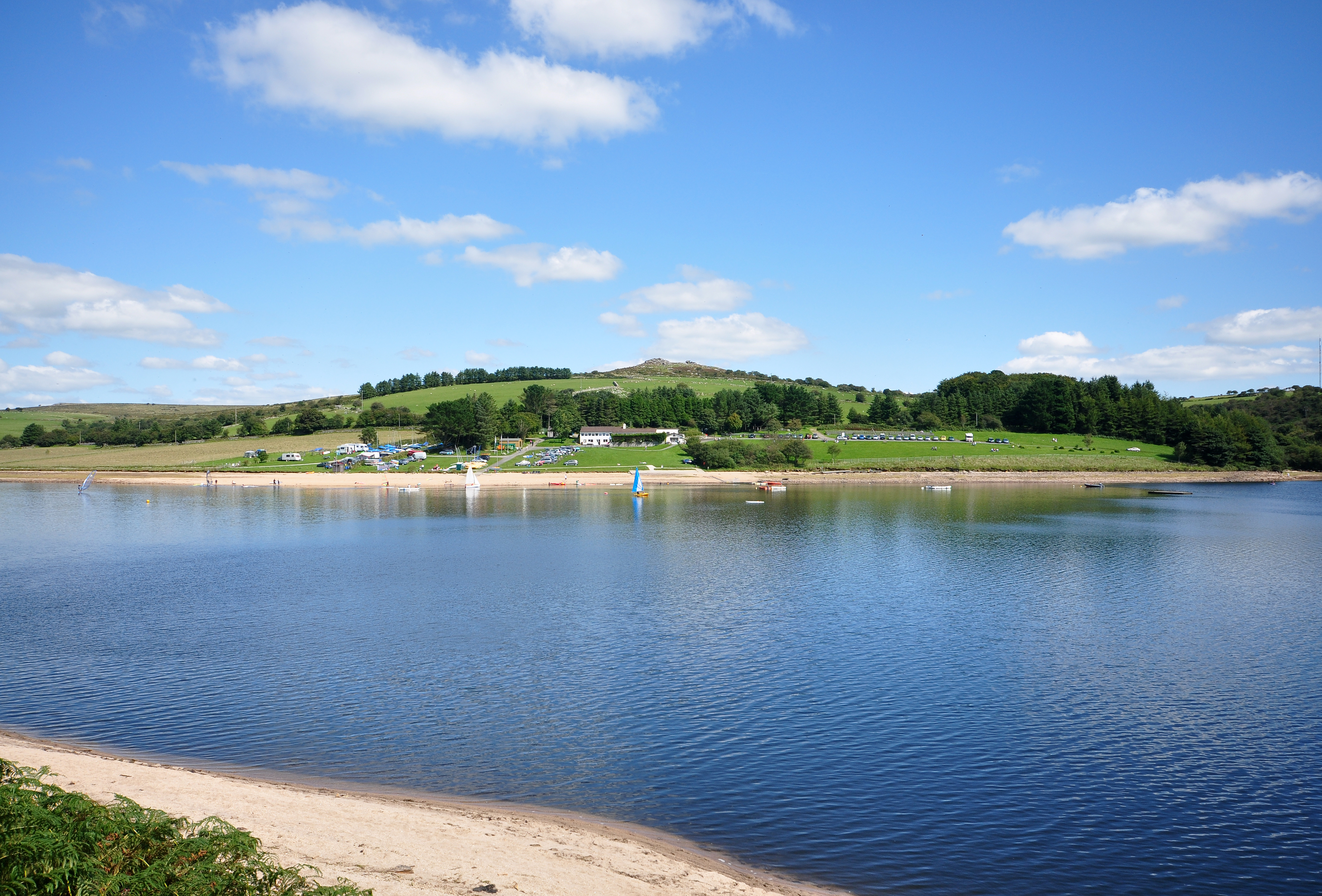 View across Siblyback Lake in Cornwall, towards the watersports complex.